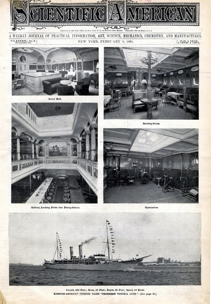 1901 Scientific American cover showing photos of the German cruise ship Prinzessin Victoria Luise, the first of its kind